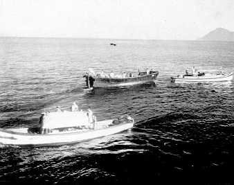 Sam Ratulangi's coffin being transported to the port in Manado from the KPM ship Swartenhondt in 1949.